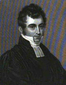 Portrait of Robert Lynam (1796–1845), English cleric and editor.